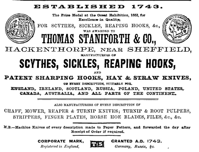 1876 Advertisement for the Thomas Staniforth & Co. Scytheworks from Hackenthorpe.